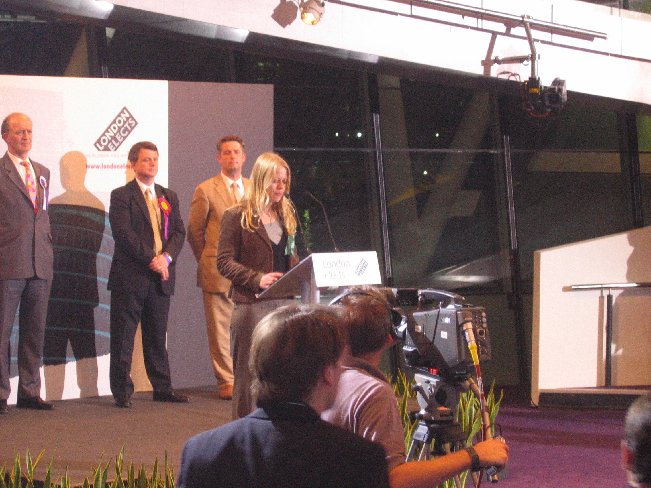 London Elections 2008, City Hall. Sian Berry